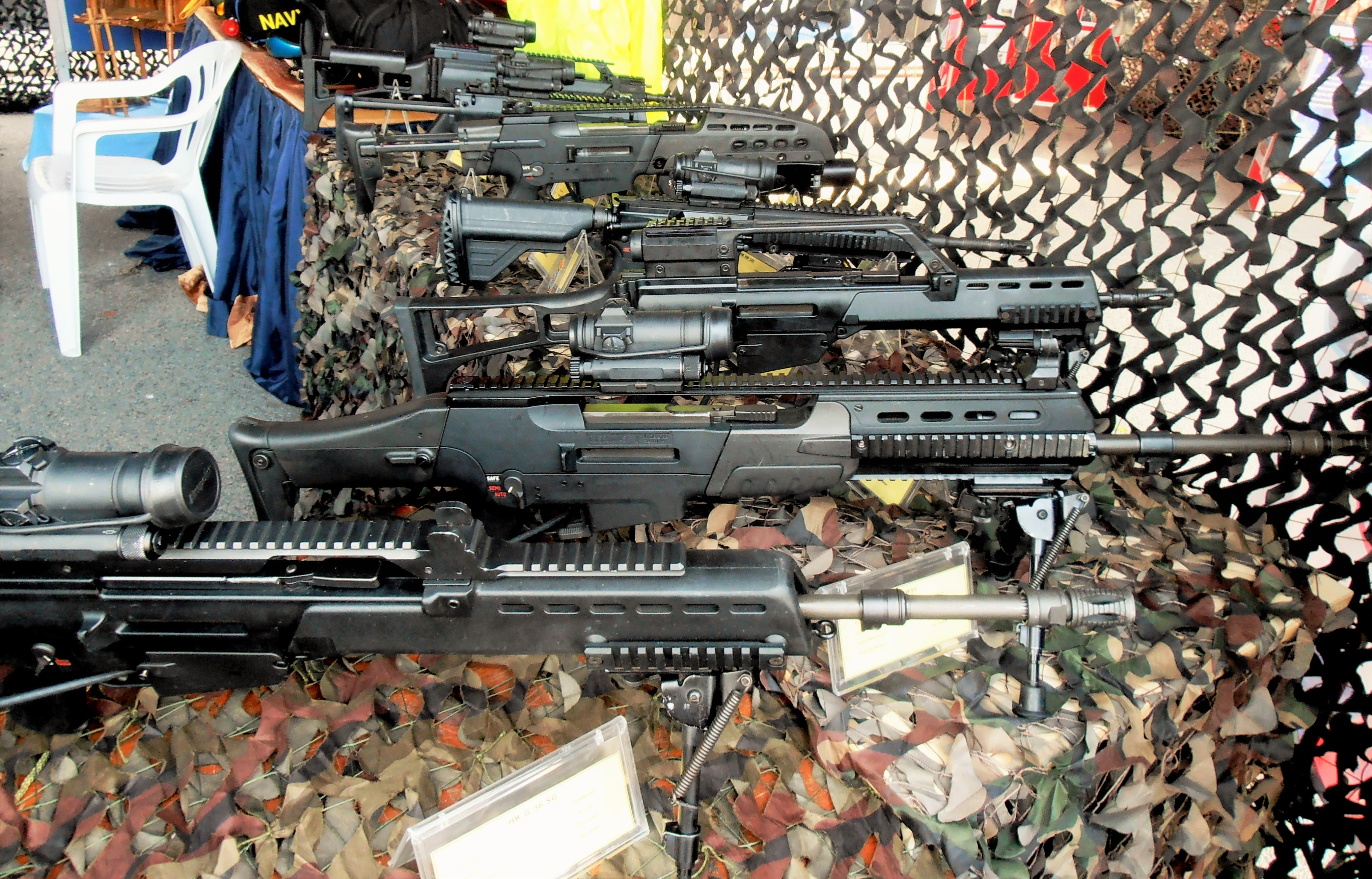 LUMUT (May 01, 2016) A German Heckler & Koch weapons such as G36KV, XM8 DMR, HK416D14.5, MP7 and G36C used by PASKAL on display at a PASKAL exhibition booth during 82nd Anniversaries of Royal Malaysian Navy, Lumut, Perak, Malaysia.